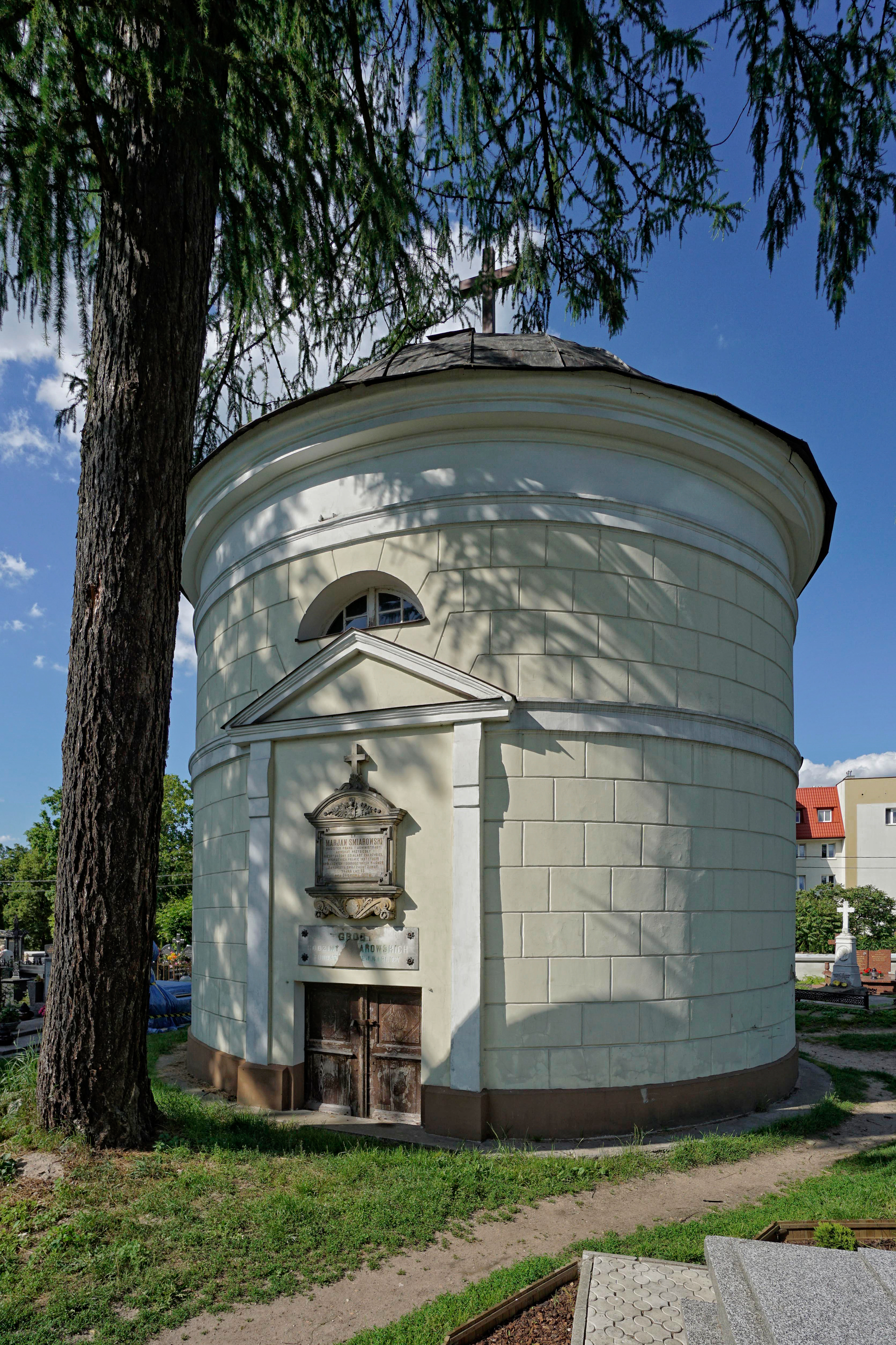 Chapel of Śmiarowski family in the cathedral cemetery in Łomża (Poland) 03.1987.